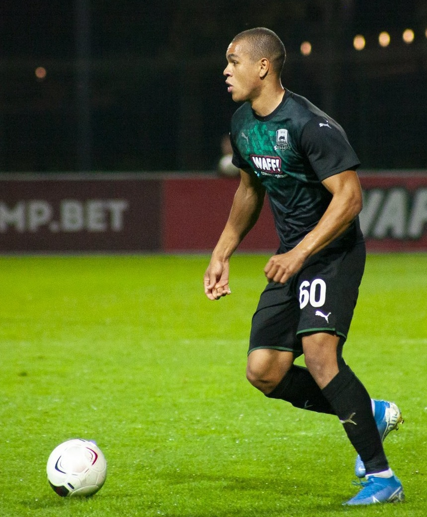 German Onugkha with FC Krasnodar-2 in a game against FC Fakel Voronezh.